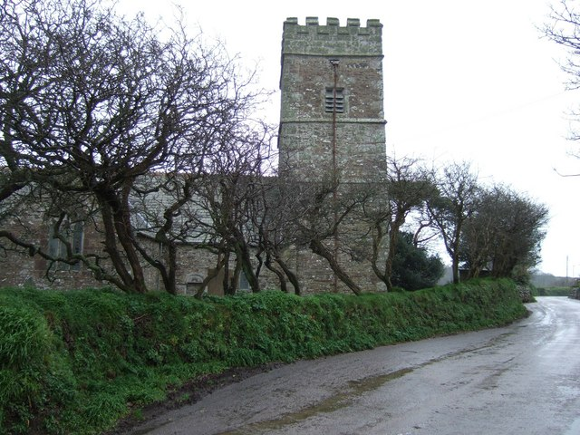 St Michael's parish church, St Michael Caerhays, Cornwall, seen from the north